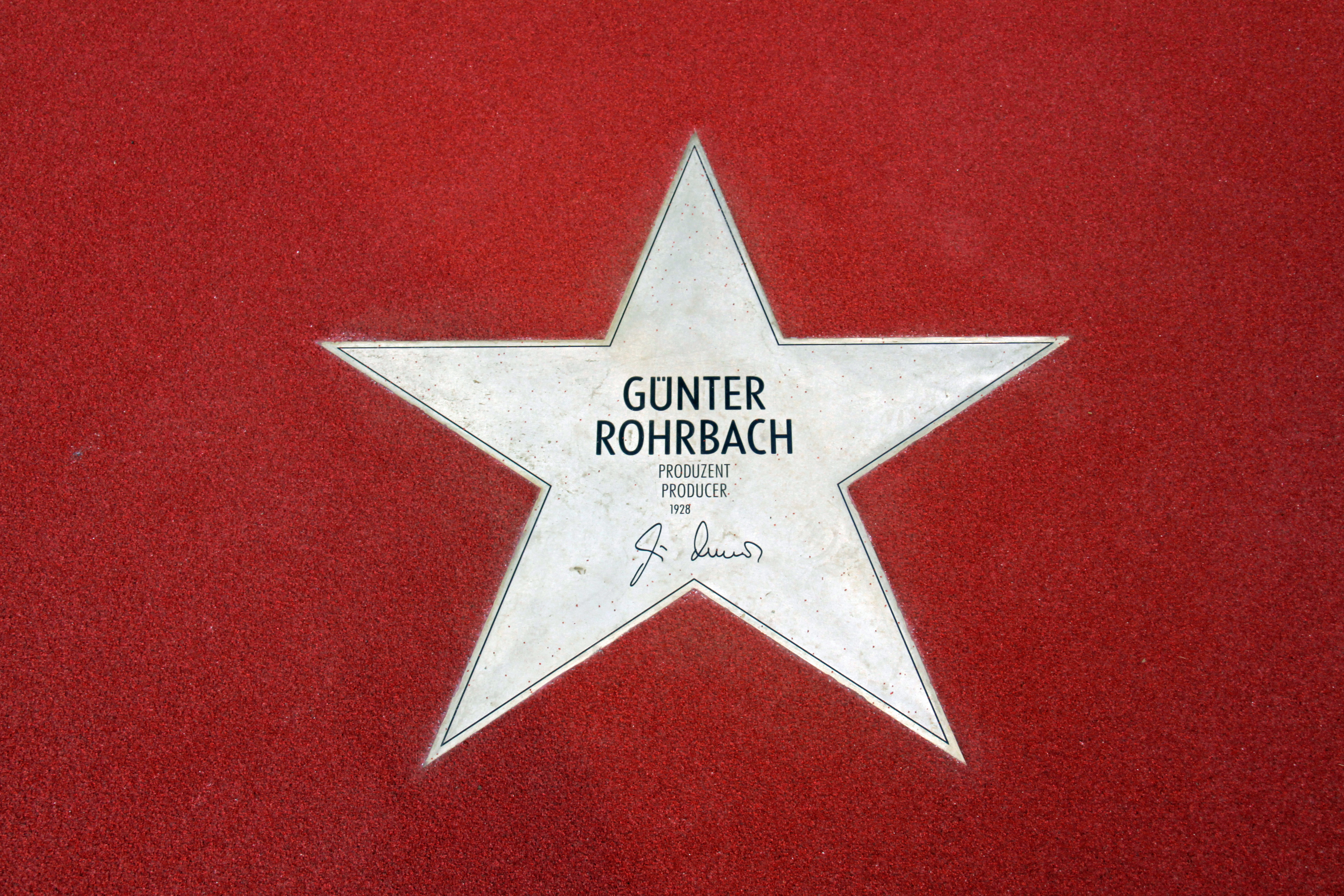 Star of Günter Rohrbach at the "Boulevard der Sterne" in Berlin